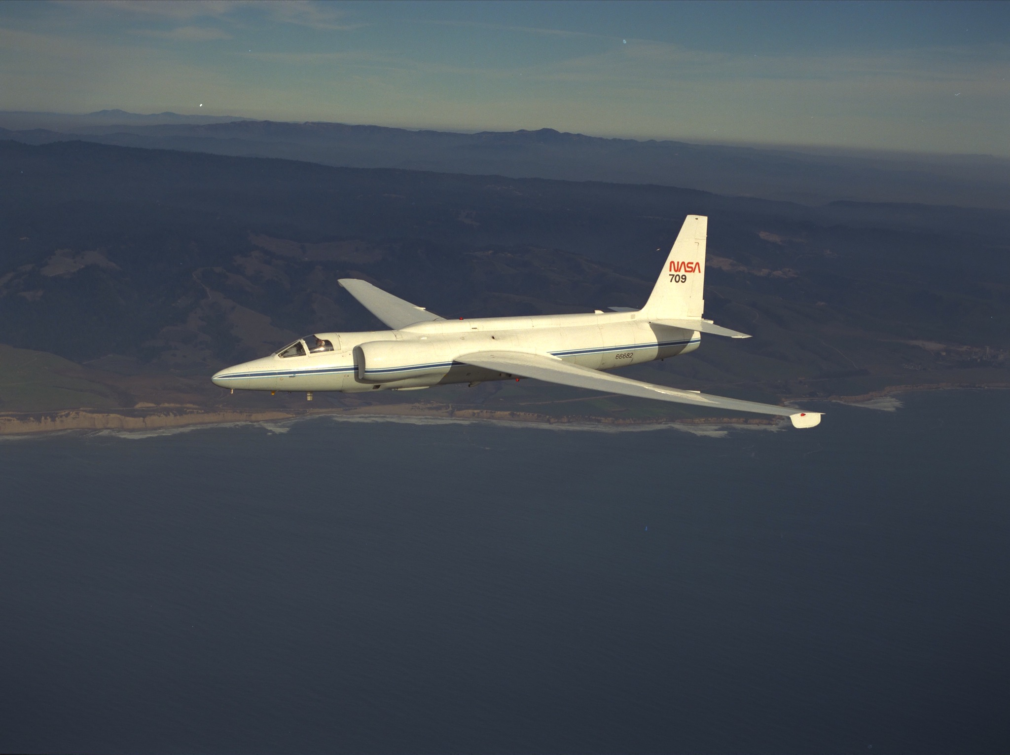 NASA ER-2 in flight off California coast.